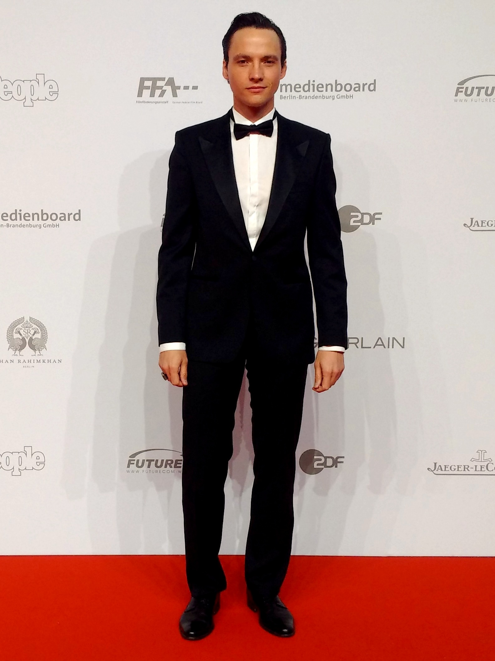 Ralph Kretschmar, attending the German Film Academy Awards, 2015, Berlin.